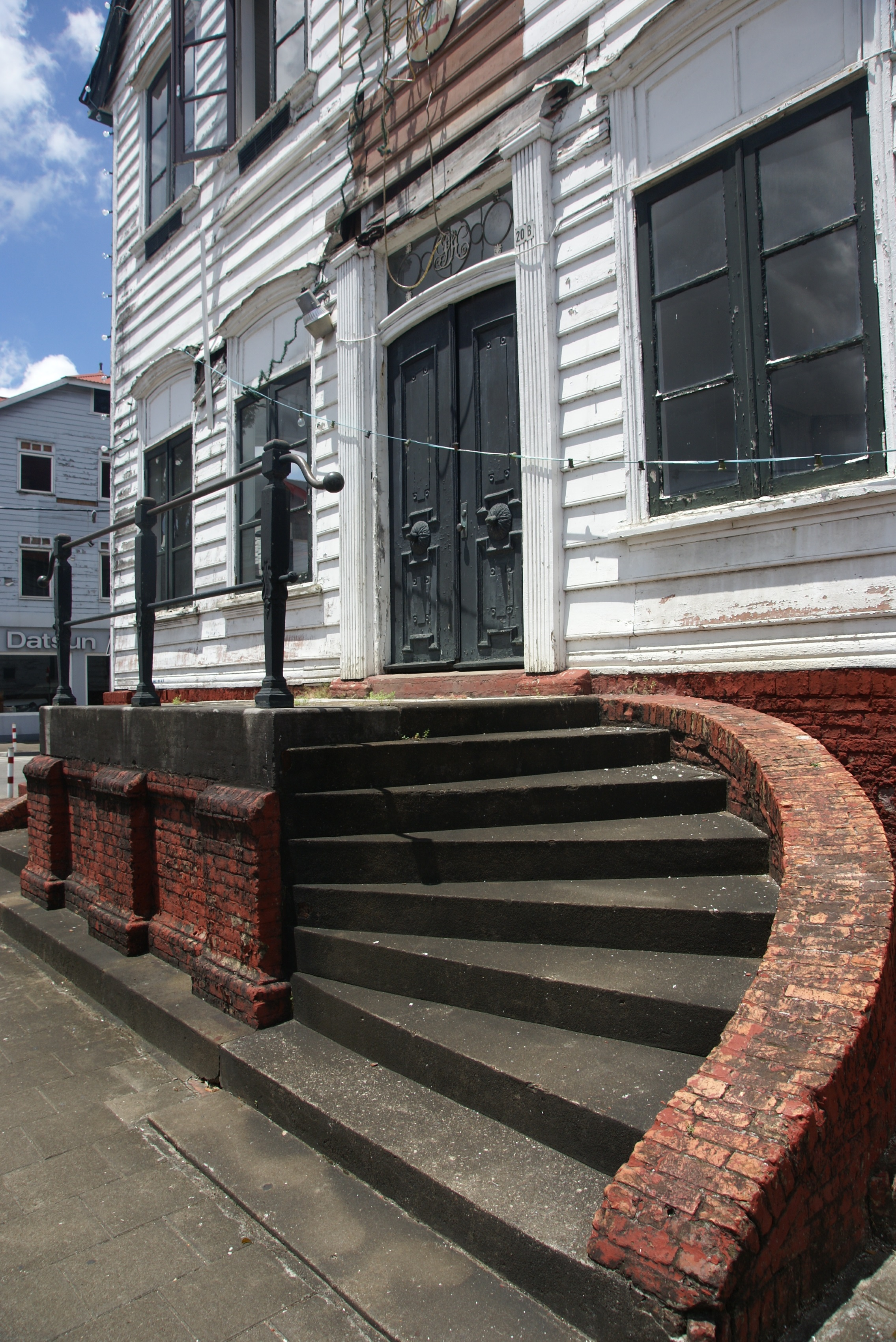 Wagenwegstraat 22, Paramaribo, Surinam. Stairs to the entrance at the Wagenwegstraat.